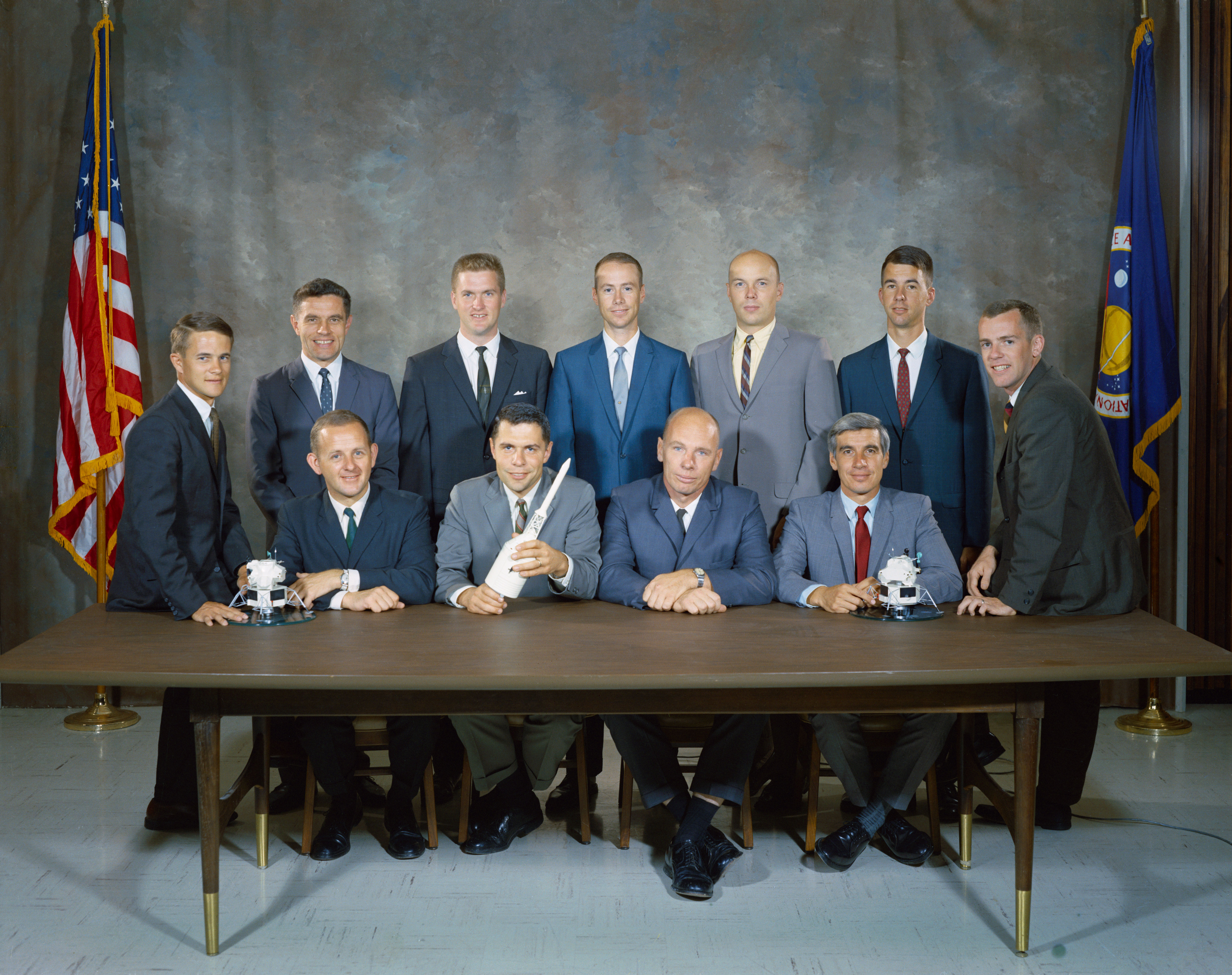 These eleven civilian scientists were assigned on July 26, 1967, to begin training for astronaut positions with the National Aeronautics and Space Administration (NASA). The group is the second of NASA's first six classes of astronaut trainees to be selected specifically on the basis of scientific education versus aviation backgrounds. Seated at the table, left to right, are Philip K. Chapman, Robert A. R. Parker, William E. Thornton and John A. Llewellyn. Standing, left to right, are Joseph P. Allen IV, Karl G. Henize, Anthony W. England, Donald L. Holmquest, Story Musgrave, William B. Lenoir and Brian T. O'Leary.